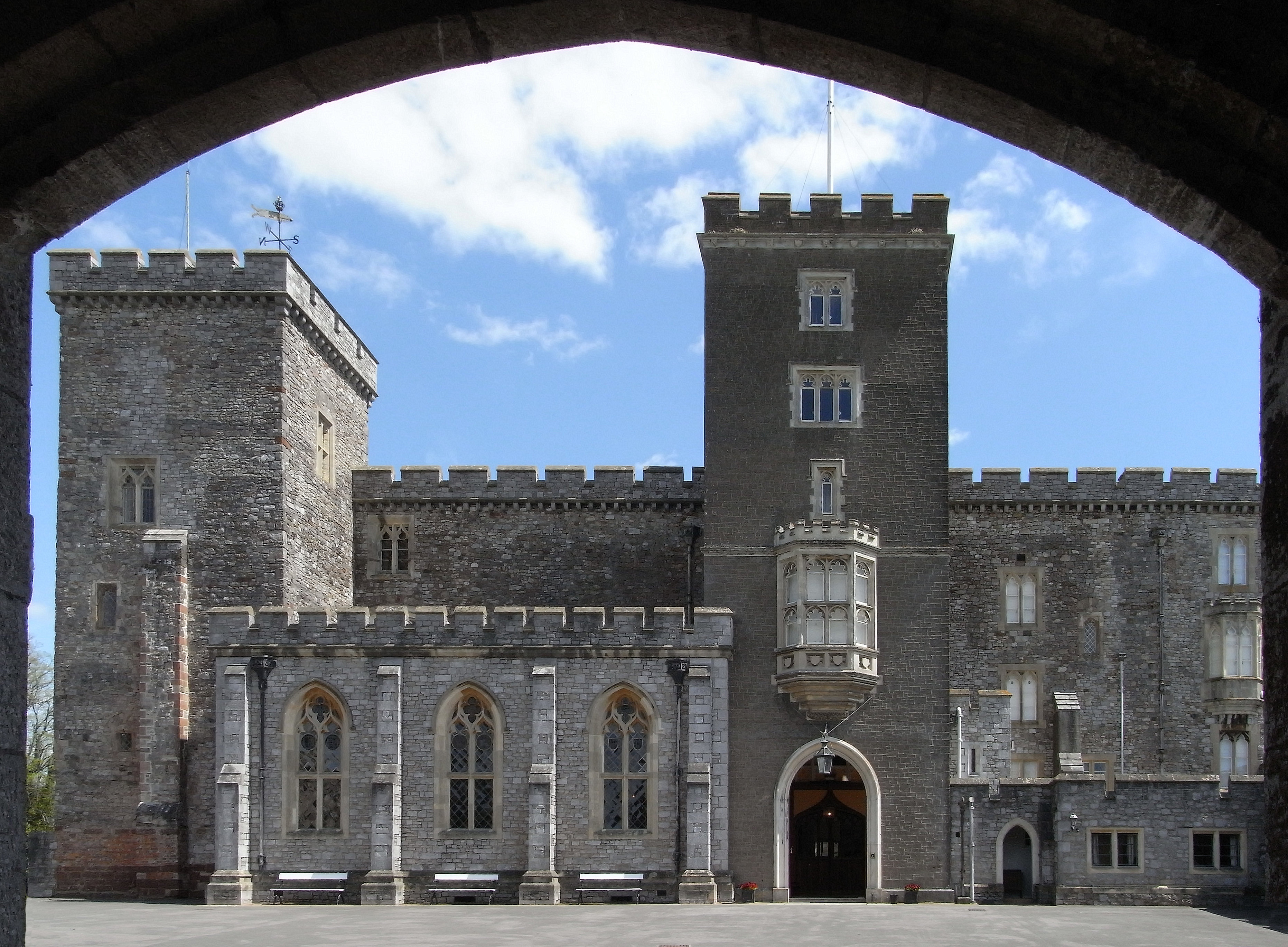 Powderham Castle, Devon, viewed from under the gatehouse. Per the Powderham Castle guide book, p.9, the leftmost tower dates from 1390-1450 as does the main high central block, which originally housed a full-height great hall. The central entrance tower was built between 1710-1727. The single-storey projecting room built between the two towers, with three tall gothic-style windows, is the Victorian Dining Hall.